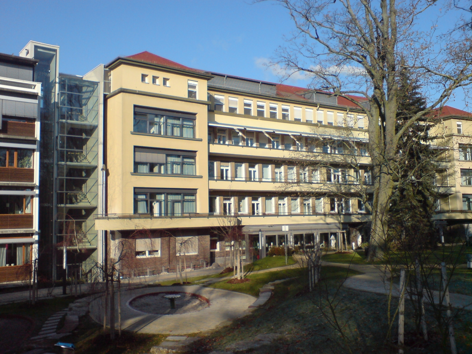 The "Alice Hospital", a general hospital in Darmstadt, Germany. Seen from the southern side. At the left, next to the glassed-in stairwells, the "Aerztehaus" (medical specialist clinics) is visible.